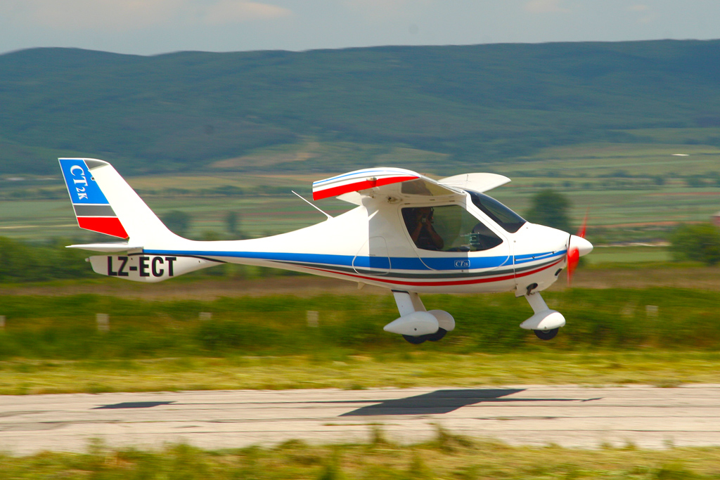 Ultralight airplane Flight Design CT2K